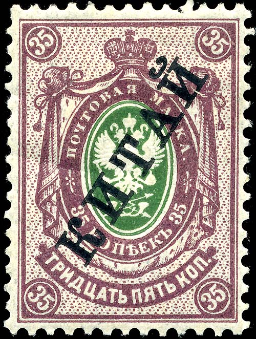 35 kopek stamp of 1904 of Russian empire, P.O. in China.